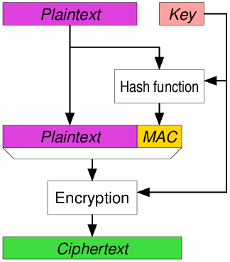 Authenticated encryption scheme "MAC than encrypt" (MtE)